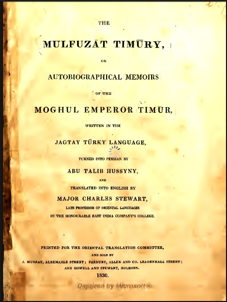 Title r Cover page of Autobiographical text of Taimur (in English translation)